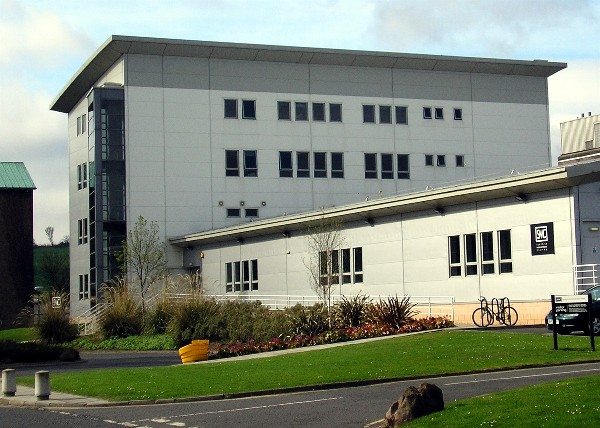 Scottish Microelectronics Centre, University of Edinburgh SMC is a world class Centre for Incubation, Research & Development in the semiconductor sector. A joint venture between The University of Edinburgh, and Scottish Enterprise. The SMC links academia and hi-tech companies.